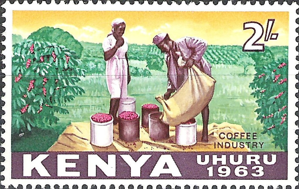 Stamp of Kenya depicting a Kenyan woman and a Kenyan man collecting coffee. Cost 2 Kenyan shillings.